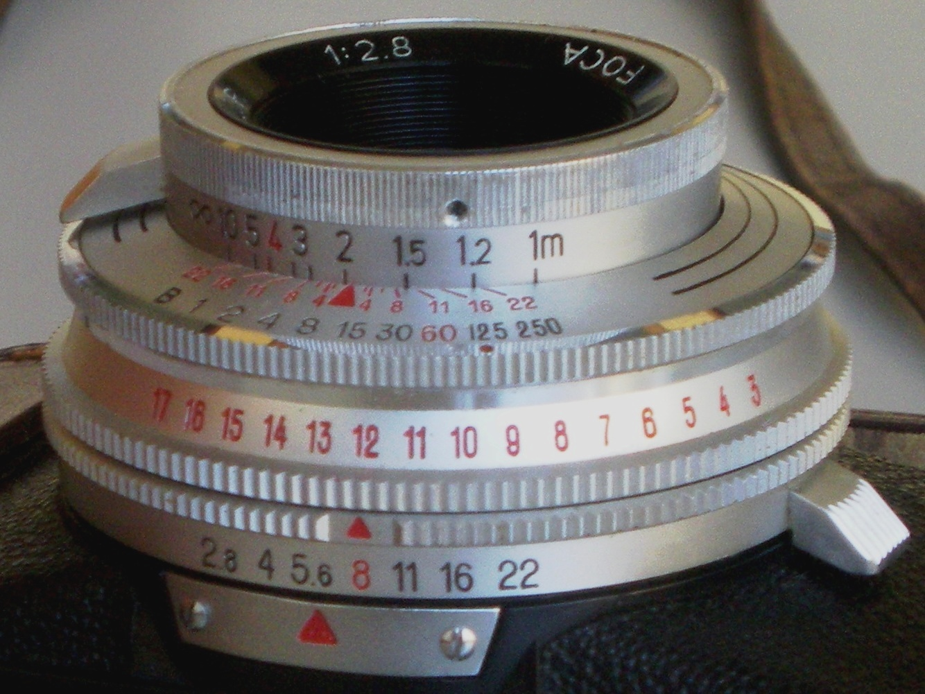 Focaflex camera, 1960. 1) Diaphragm and speed setting rings with exposure value scale. 2) Focusing ring with debth of field table.